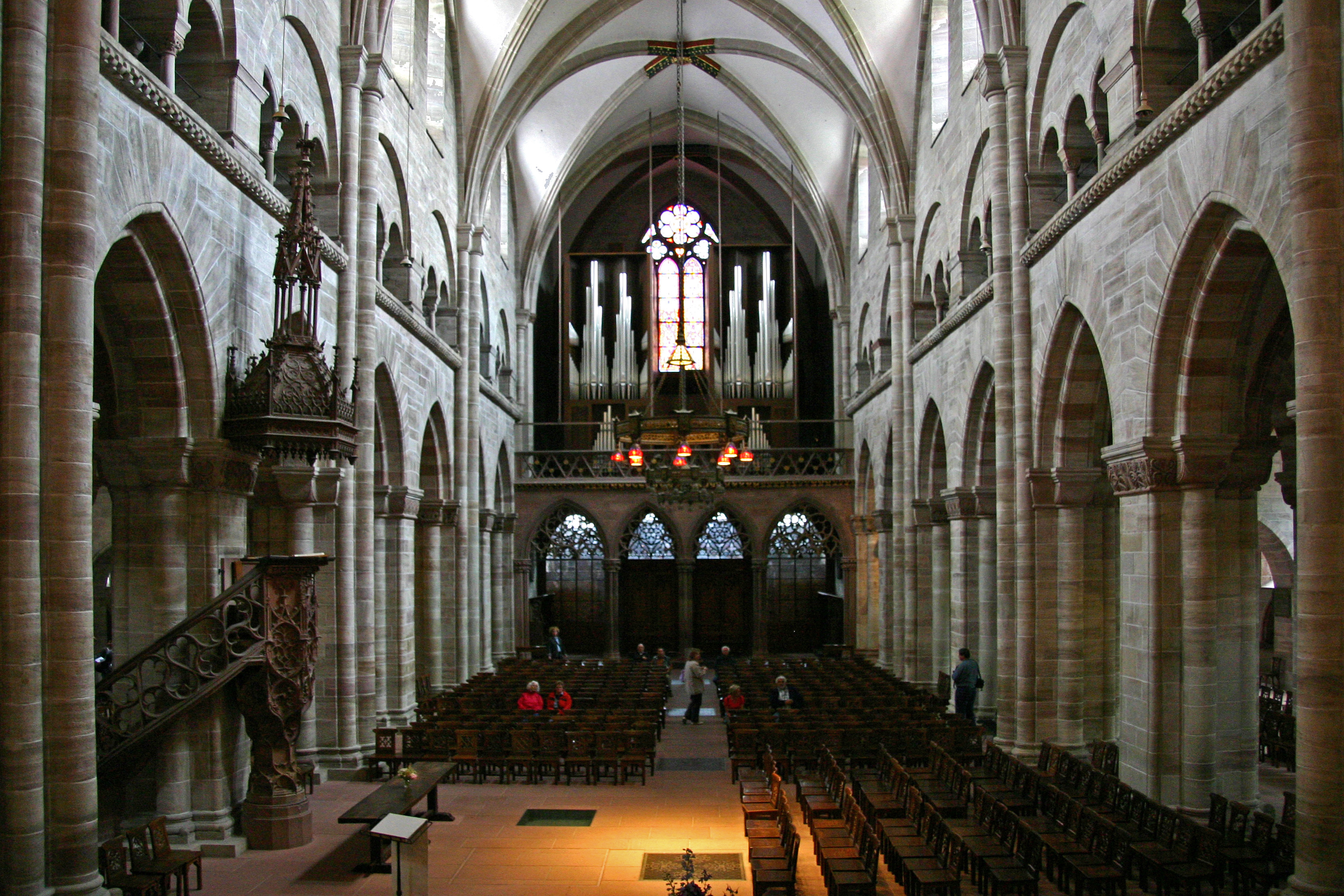 Interior of Basel Minster